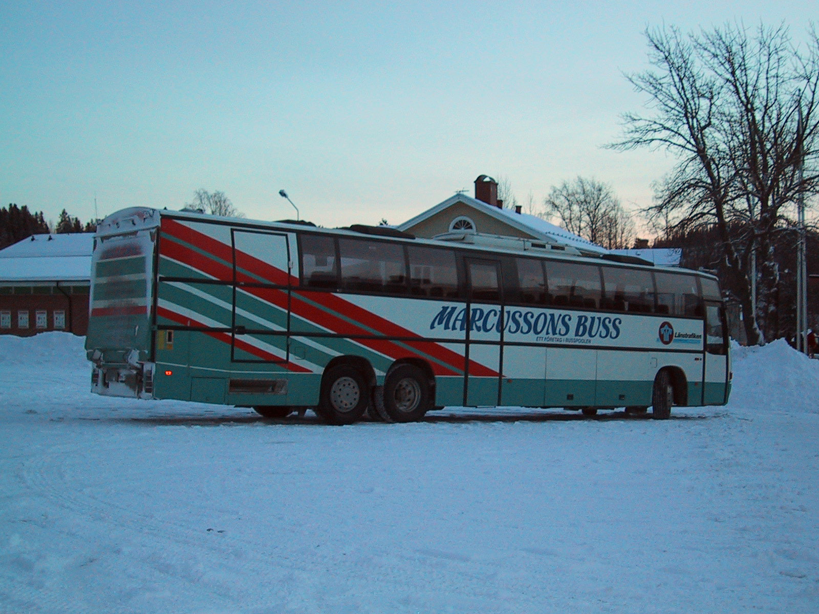 Delta Star 501 with Volvo B10M 6x2 chassis in Sweden.